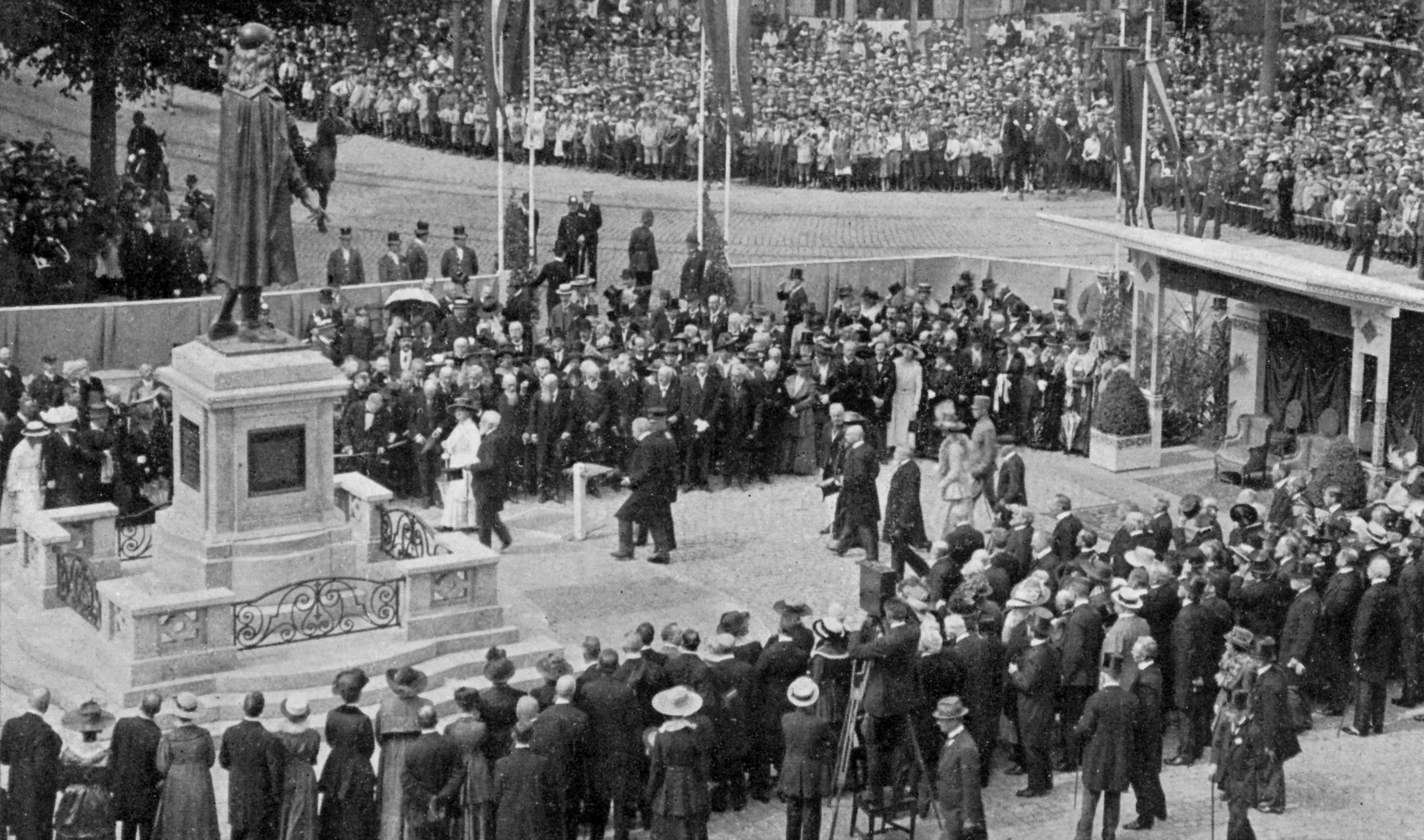 Unveiling of statue of Johan de Witt in The Hague, the Netherlands, 18 June 1918, by Queen Wilhelmina. Sculptor: Frederik Engel Jeltsema (1879-1971)